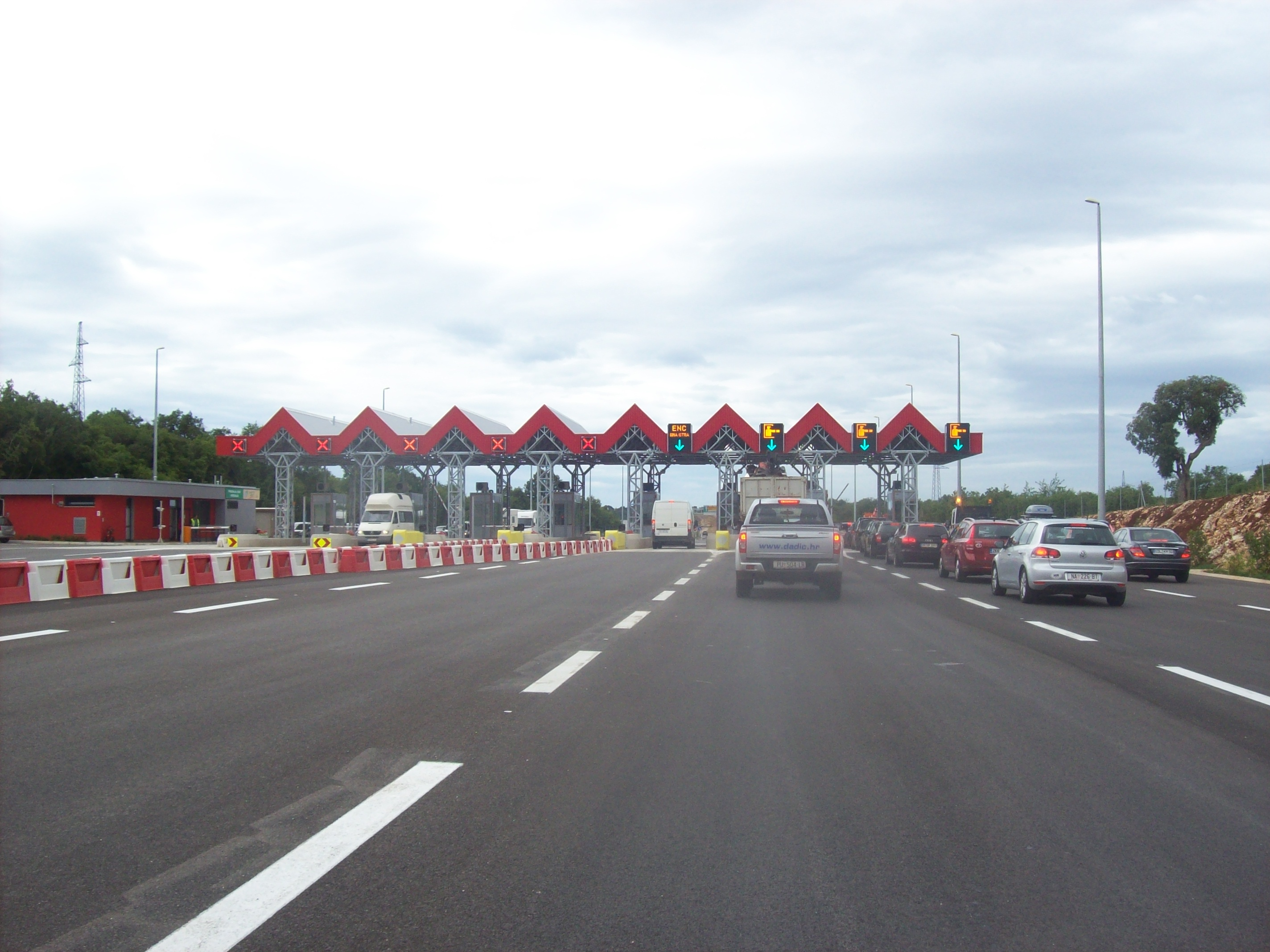 A9 motorway, pay toll Pula (Croatia) in 2010